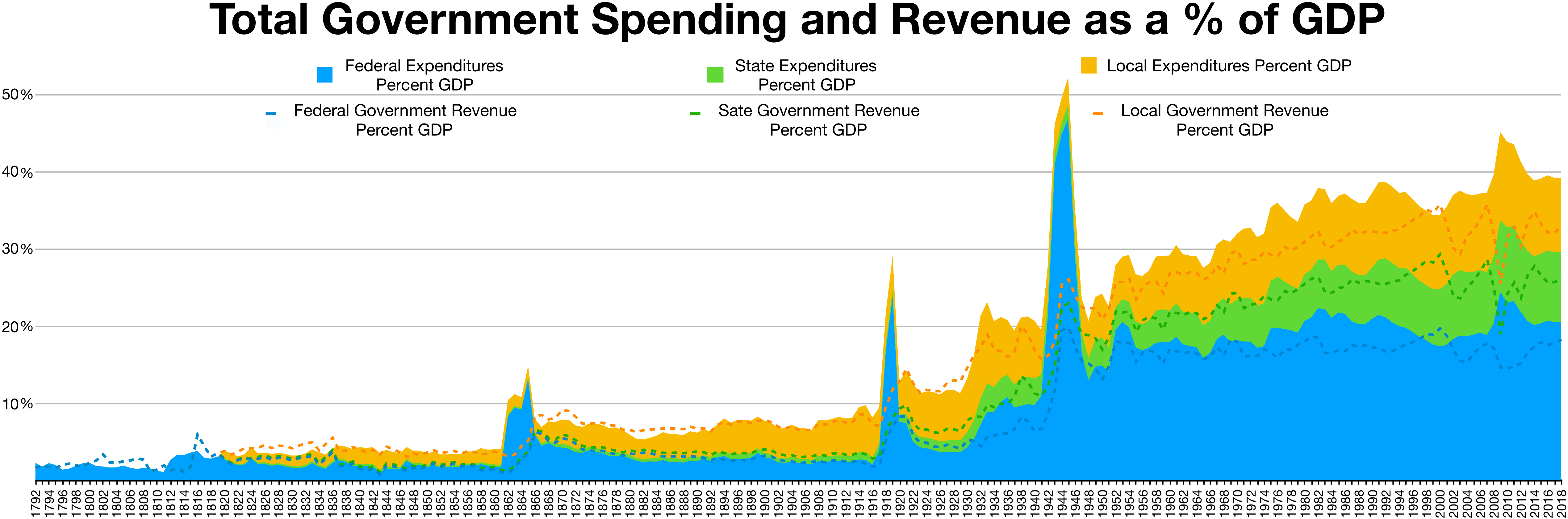 Government Revenue and spending GDP